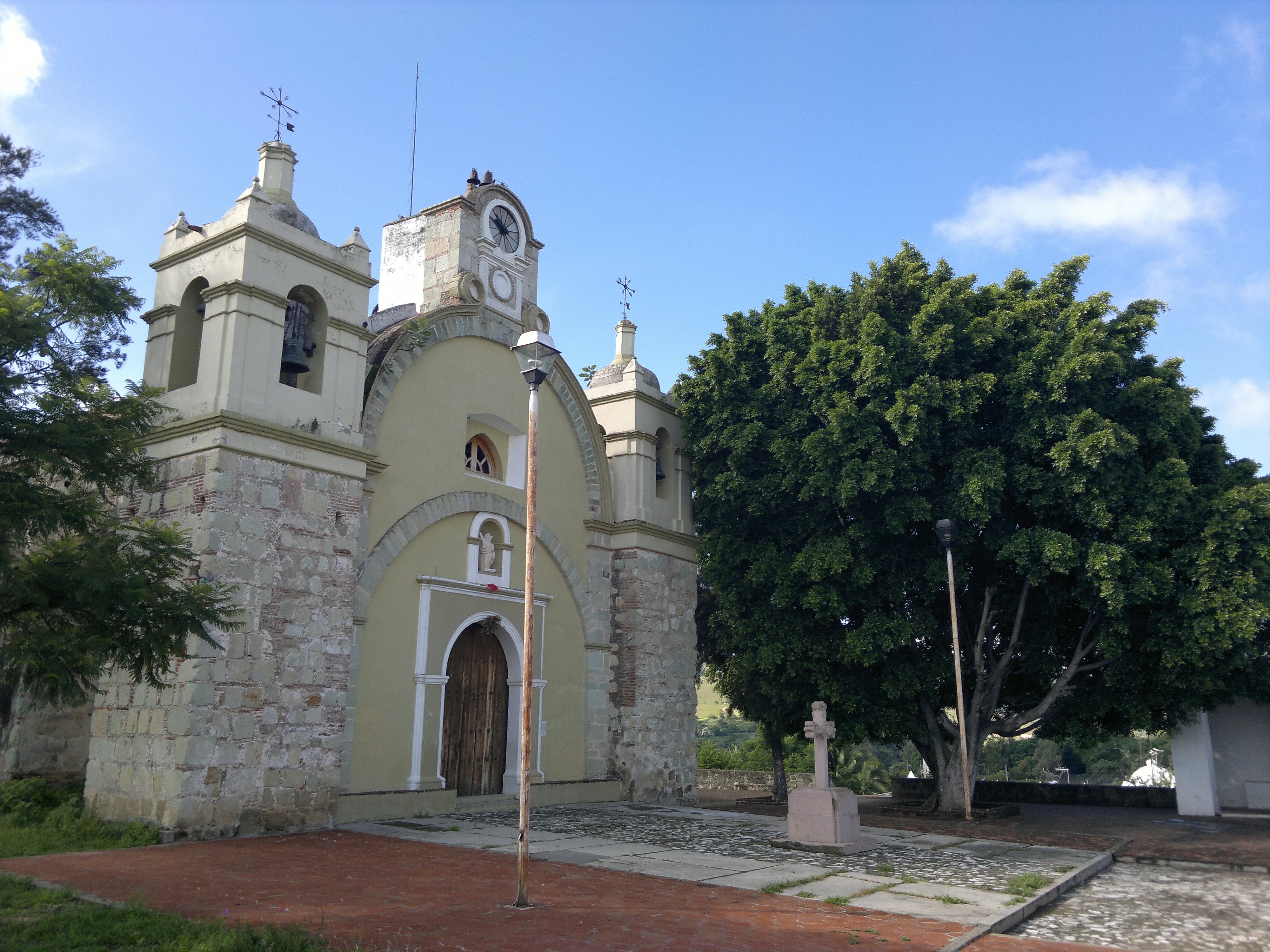 16th-century Spanish colonial church — in San Andrés Zautla, Etla District, Oaxaca state, southwestern México.